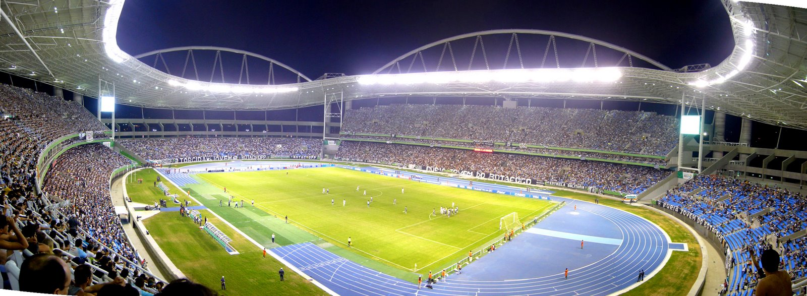 Botafogo - RJ - Brazil X River Plate - Argentina September 19, 2007 Game from the South American Cup João Havelange Olympic Stadium - Rio de Janeiro - Brazil